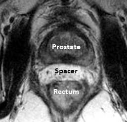 MRI showing hydrogel spacer pushing the rectum away from the prostate. The created space reduces rectal radiation injury during prostate radiotherapy.